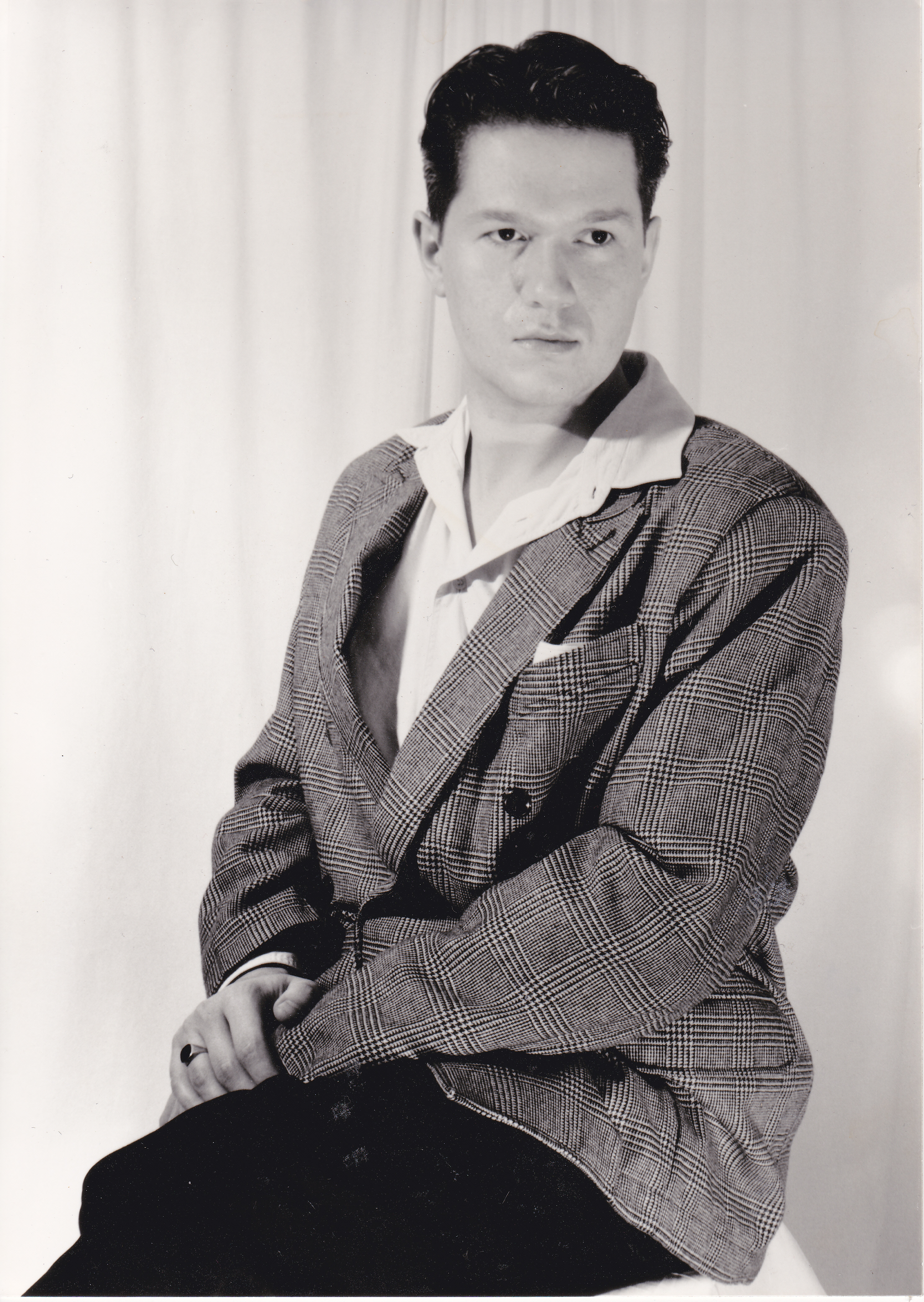 Remy, Volker